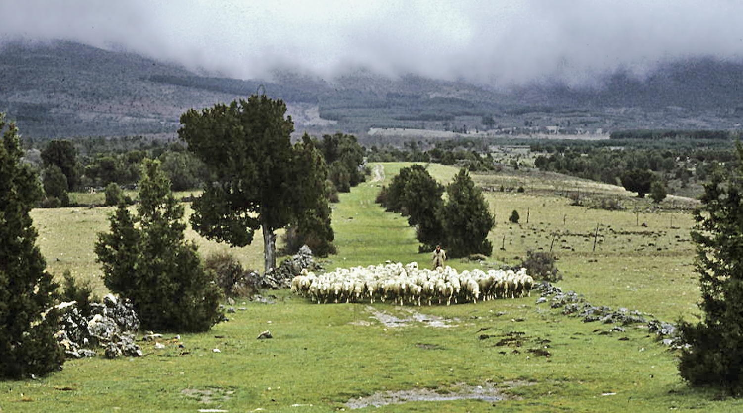 Sheep herd with shpherd in a droveway, with Spanish junipers. Casla, Segovia, Castile ans León, Spain